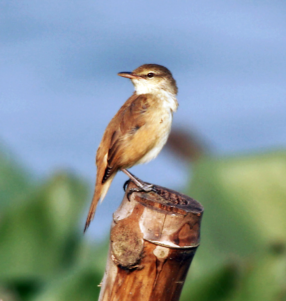 Oriental Reed Warbler (Acrocephalus orientalis) in Kolkata, West Bengal, India.